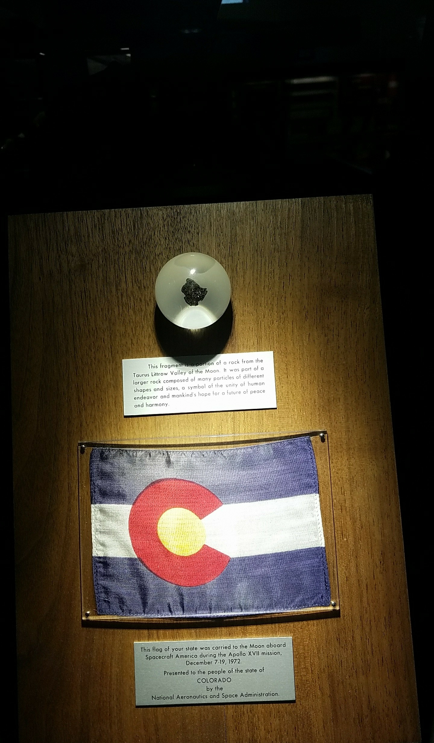 This is the Colorado display from the Apollo 17 mission, located at the Colorado School of Mines Geology Museum.